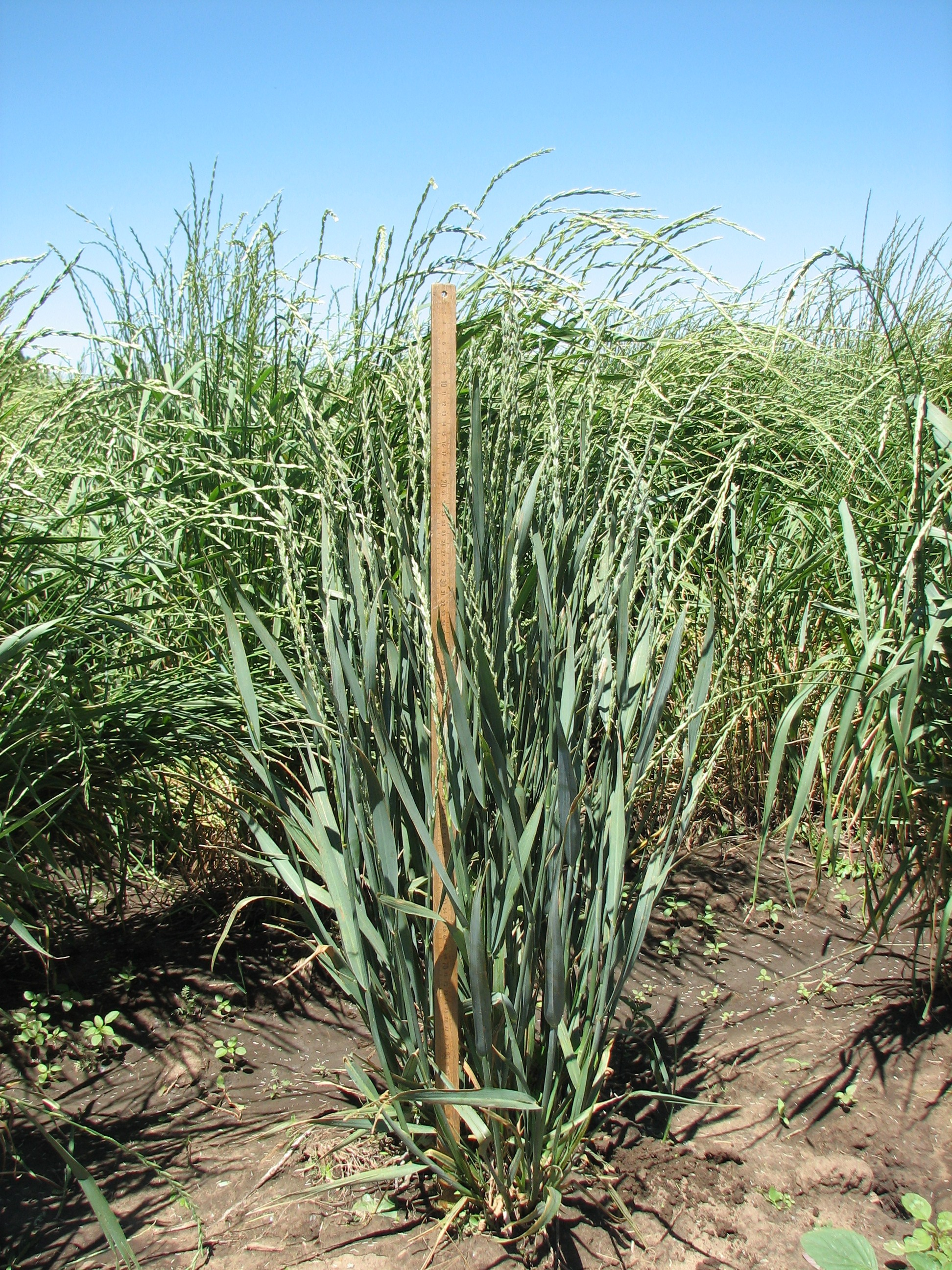 Dwarf Thinopyrum intermedium plant sorrounded by wild type plants in a breeding nursery.